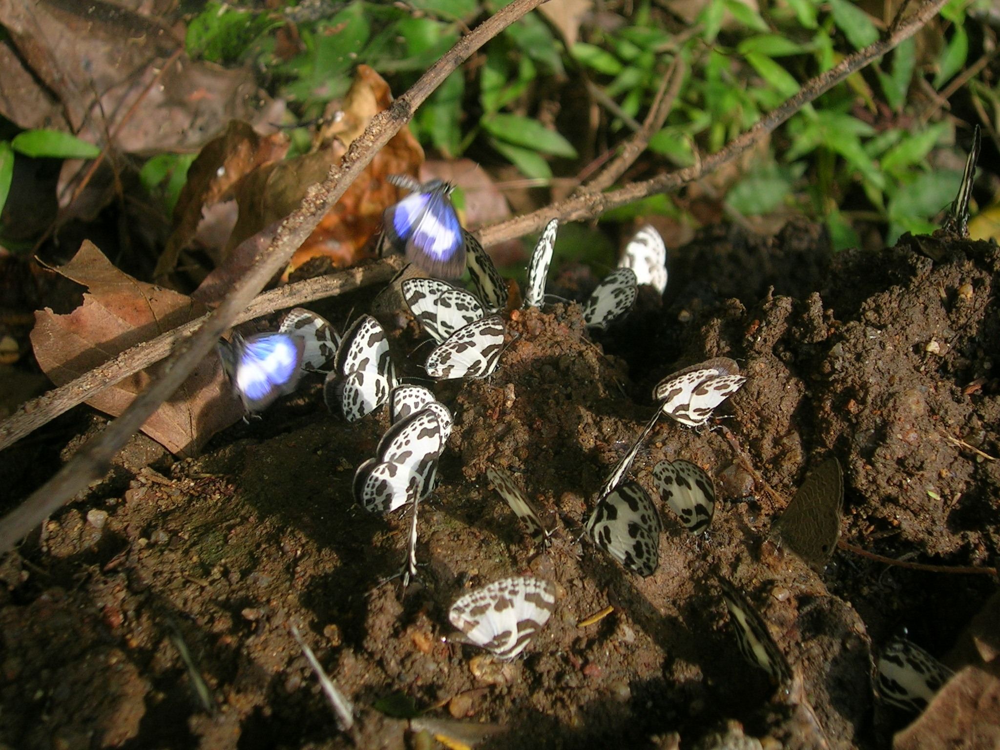 Discolampa ethion, Javadi Hills